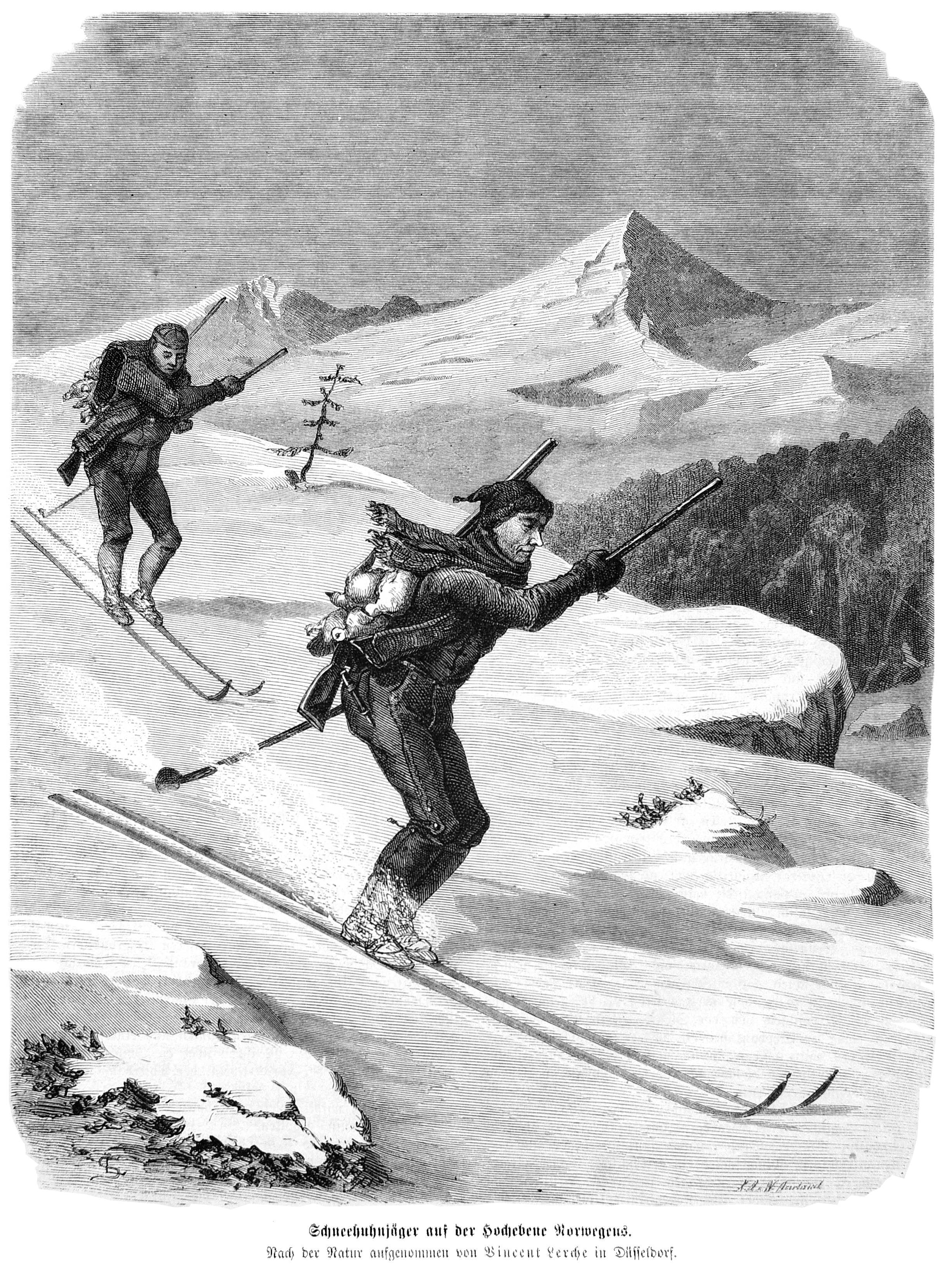 Image from page 33 of book Die Gartenlaube.